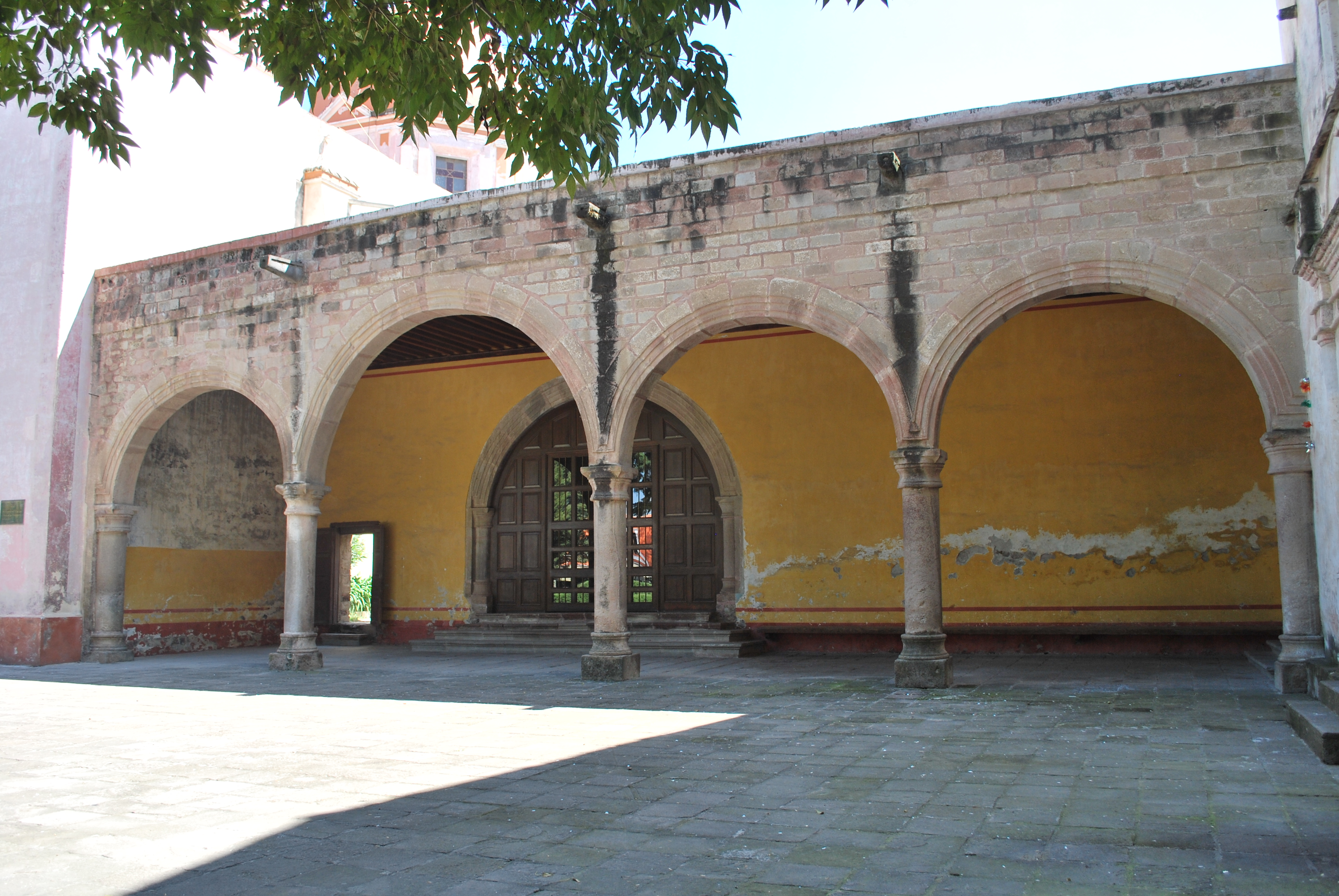 Open chapel of Calimaya, Mexico State